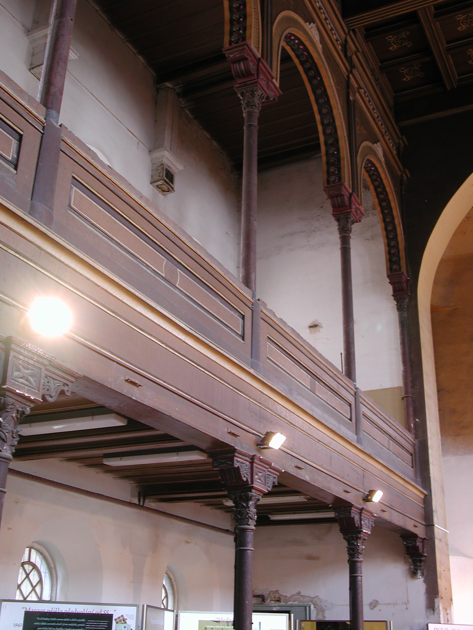 The Gallery